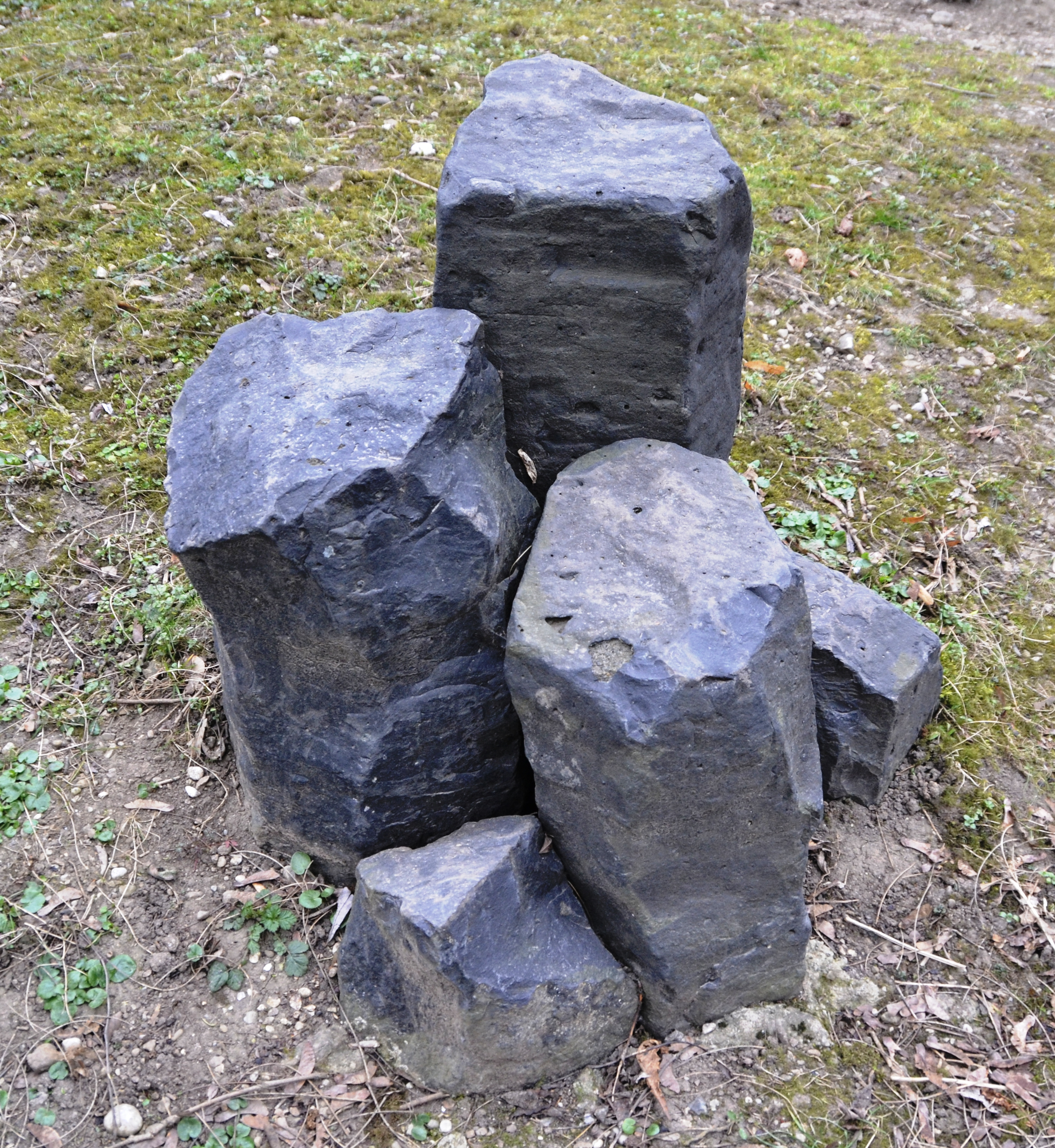 Columns of basalt from Scharfenstein in Hessen, Germany, on display at the geological public collection of the Alpines Museum in Munich. The columns of basalt were formed 10 million years ago during the Miocene epoch.